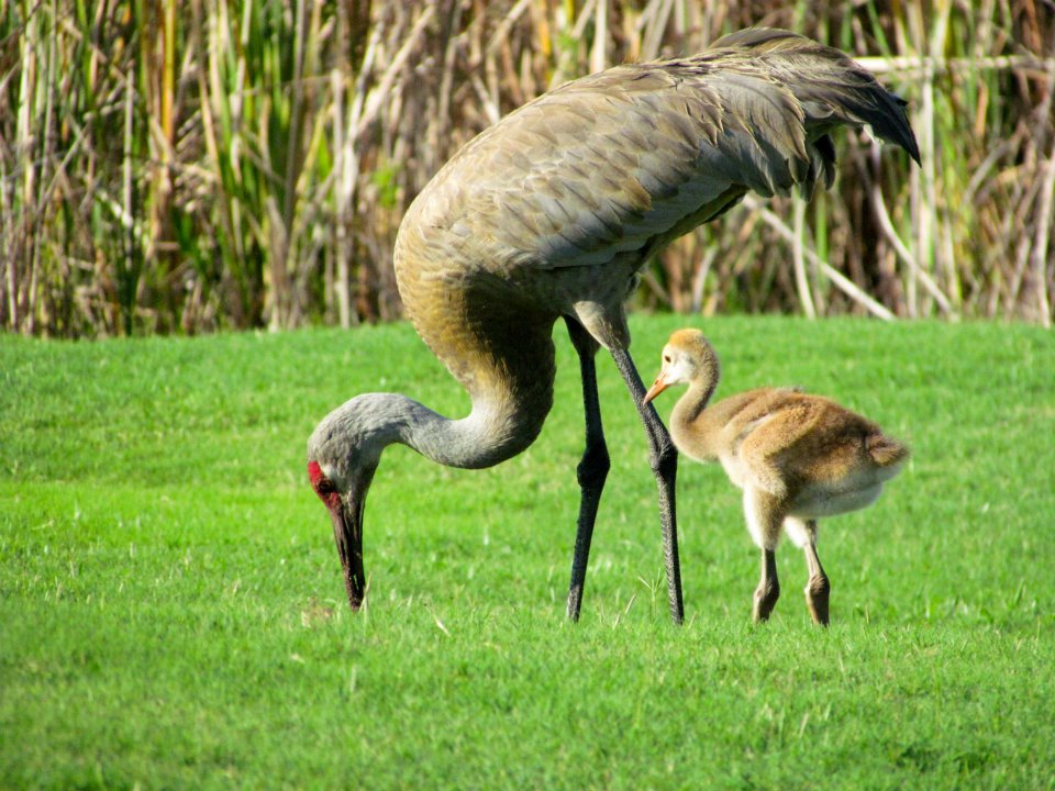 Sandhill Crane with Chick looking for food